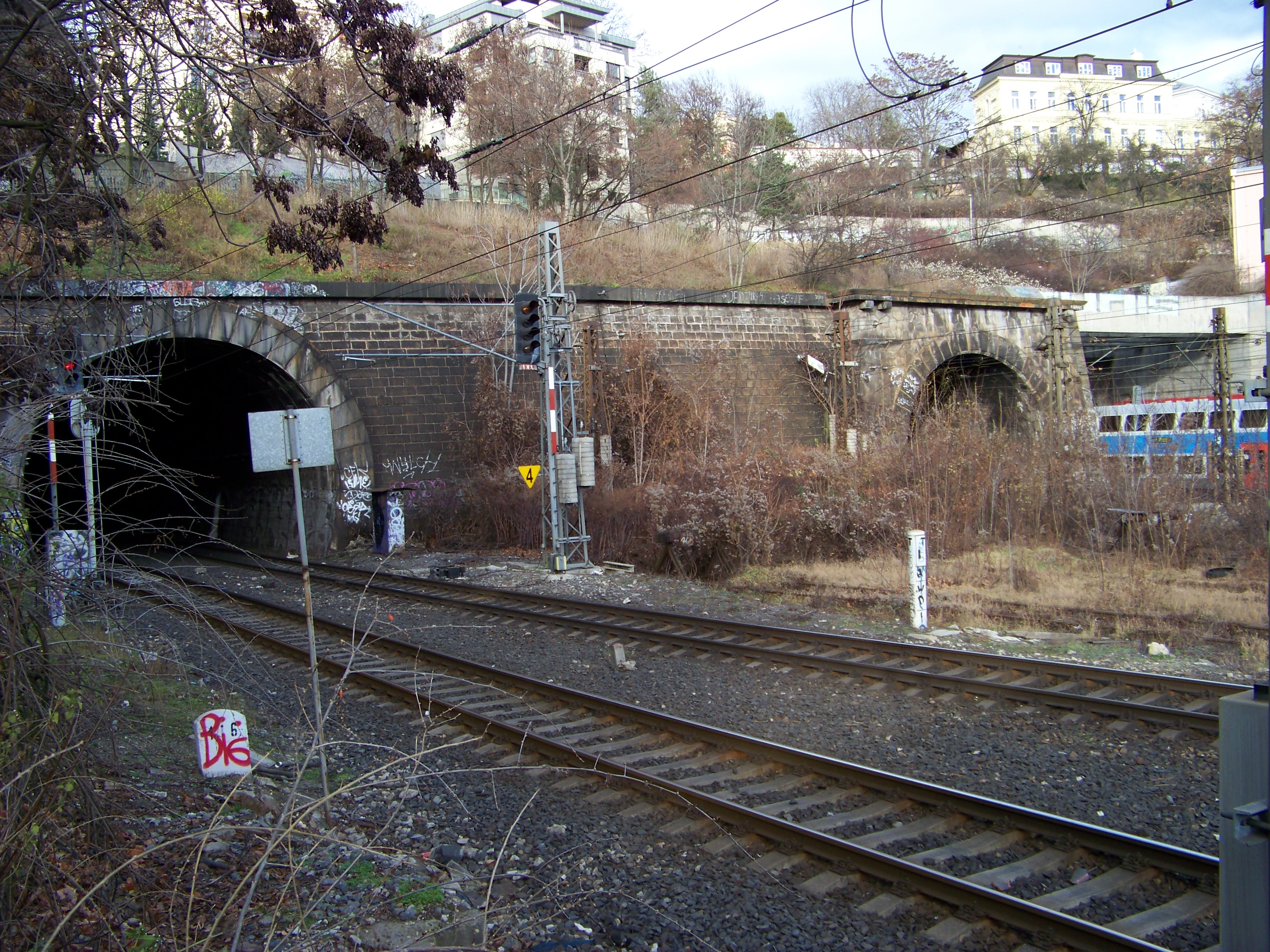 Prague-Vinohrady, the Czech Republic. Vinohrady Tunnels, the south portals.